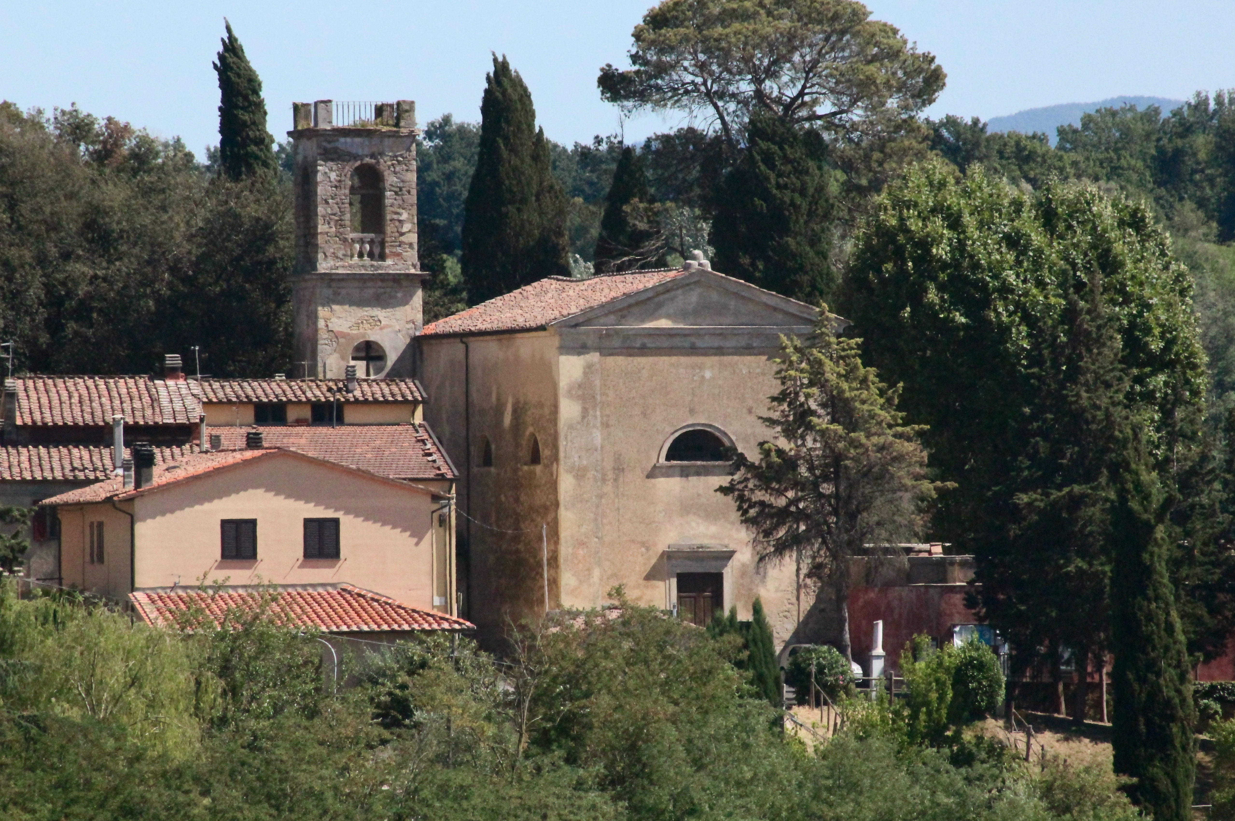 Church San Lorenzo, in San Ruffino, hamlet of Casciana Terme Lari, Province of Pisa, Tuscany, Italy